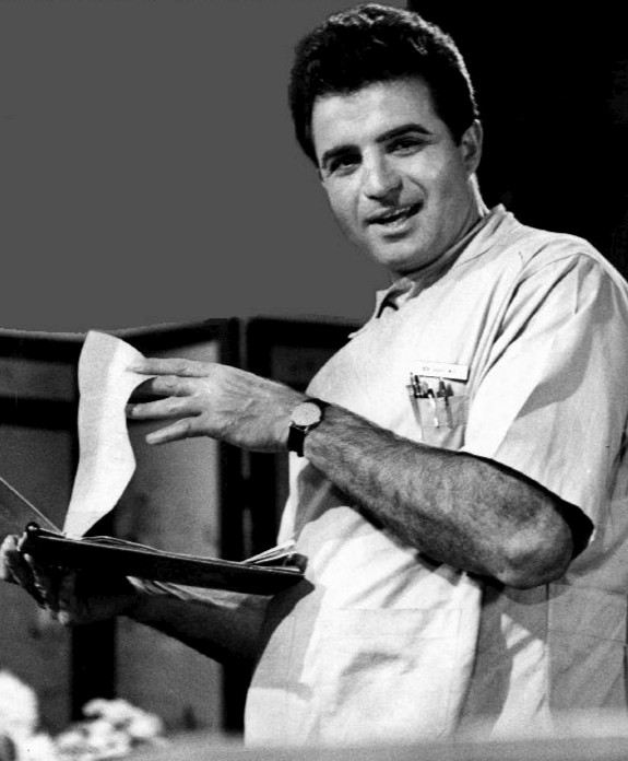 Photo of Vincent Edwards as Ben Casey from the television program of the same name.